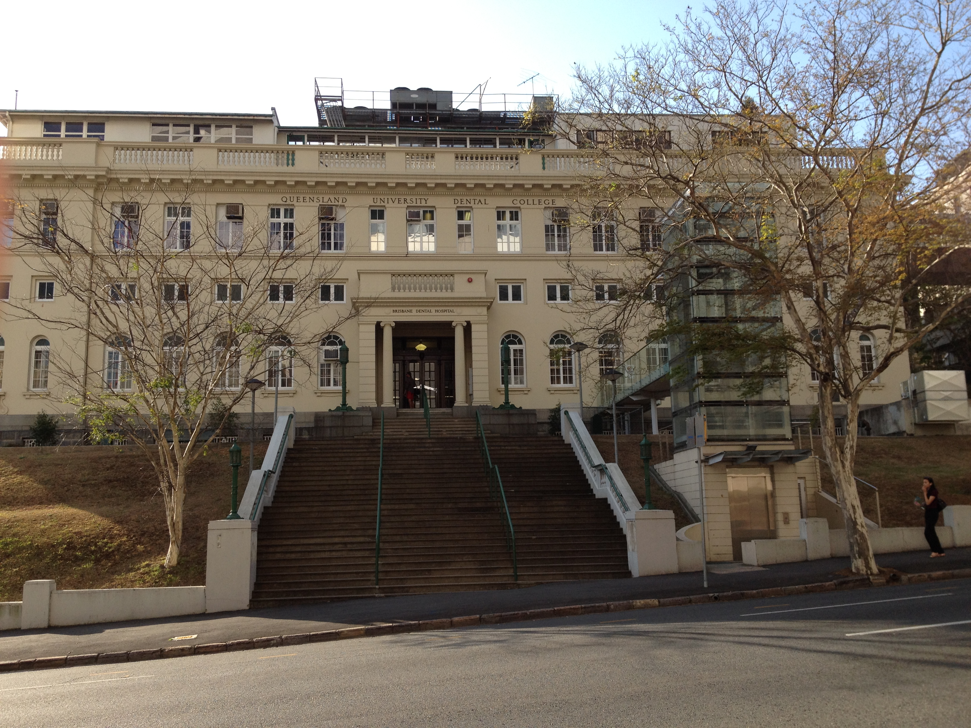 University of Queensland Dental School and Brisbane Dental Hospital at Turbot St, Spring Hill, Brisbane, Queensland